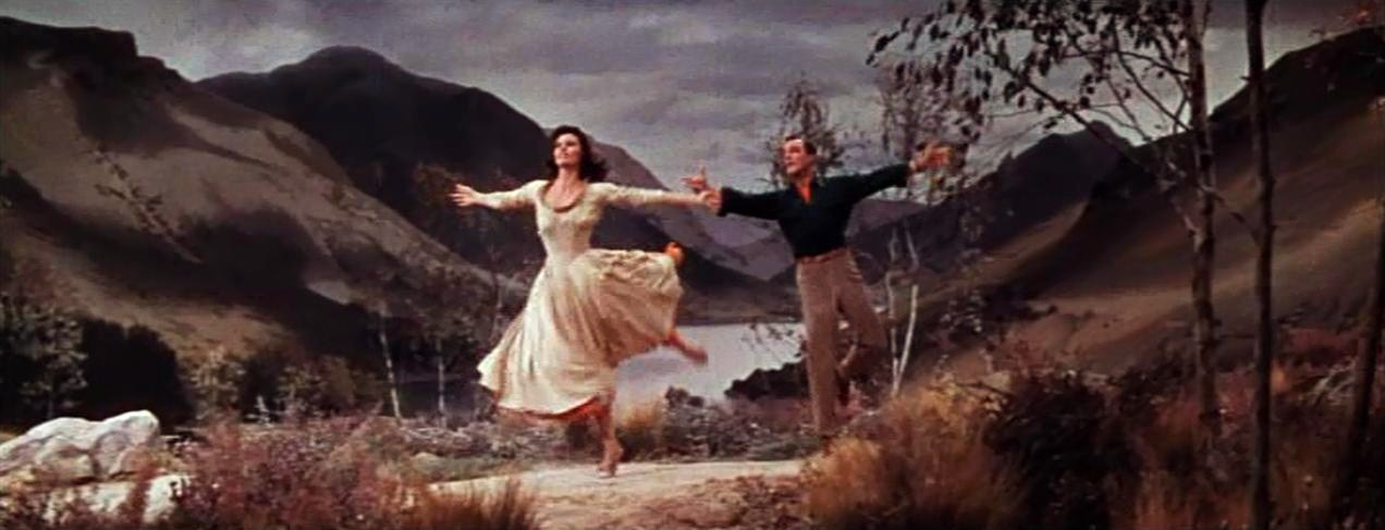 Cyd Charisse & Gene Kelly (number The Heather on the Hill) in Brigadoon - trailer (cropped screenshot)